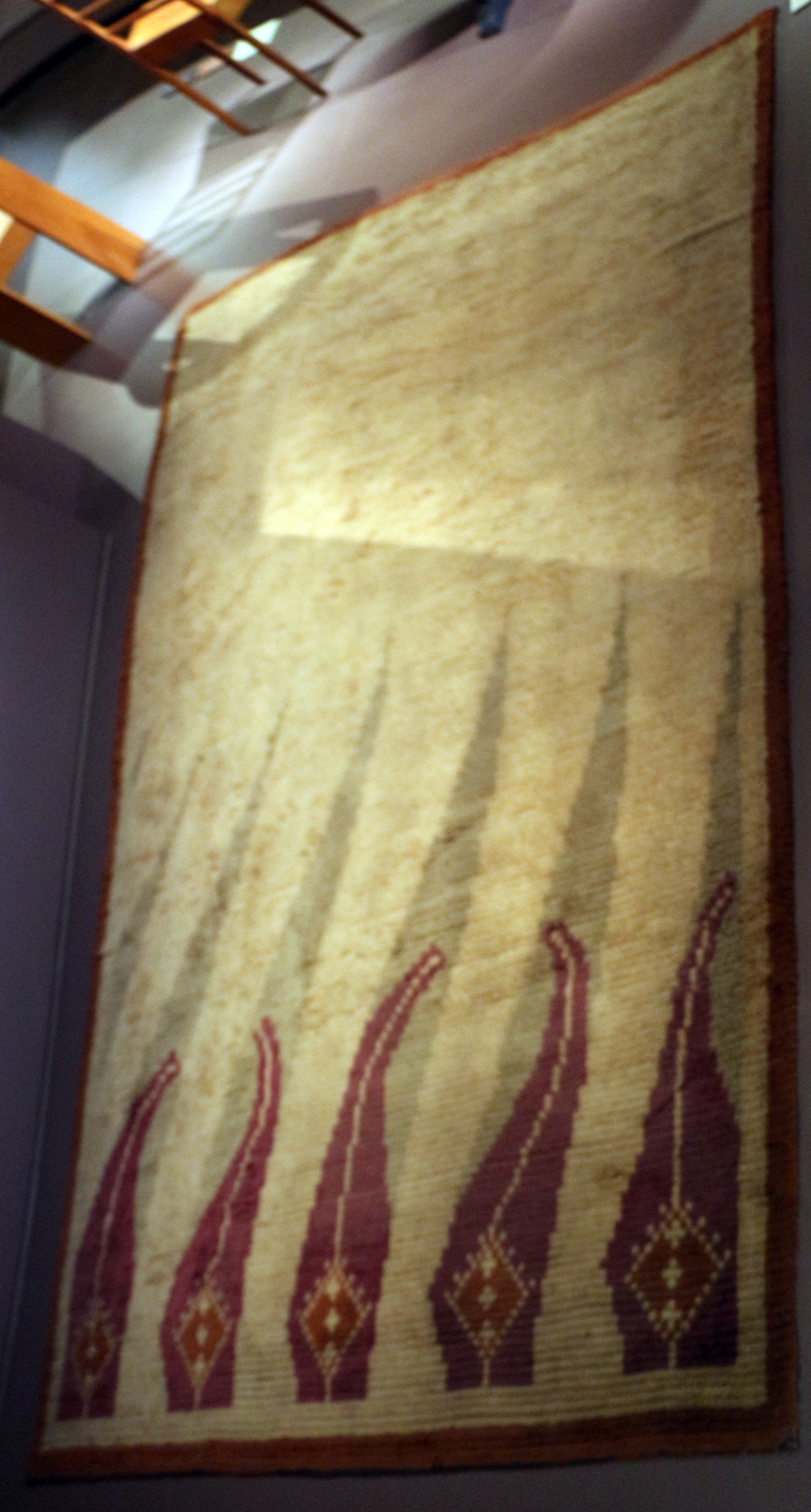 Decorative arts in the Musée d'Orsay